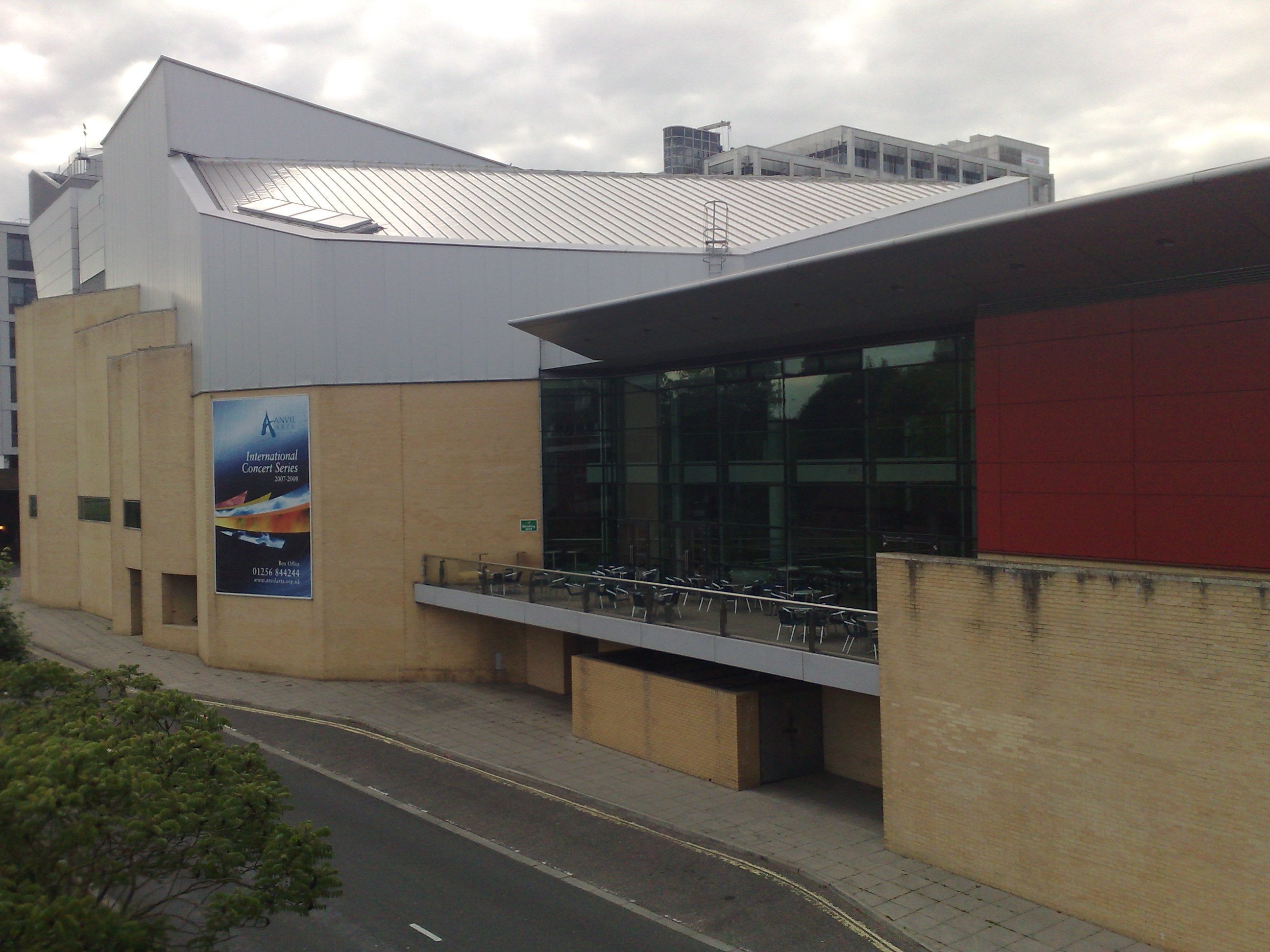 Basingstoke Anvil, southern side and bar balcony.